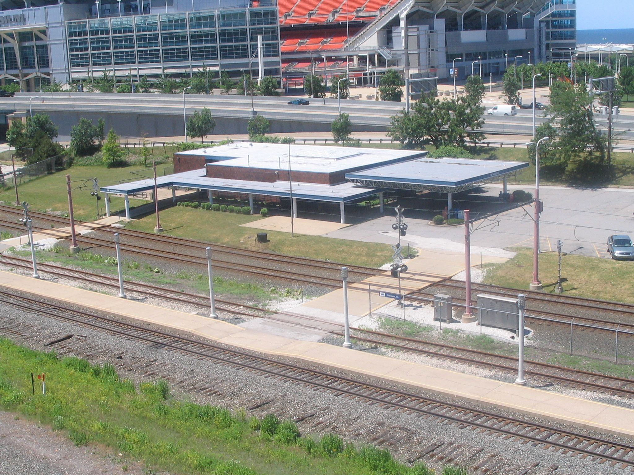 Cleveland Lakefront Station serving Amtrak in Cleveland, Ohio